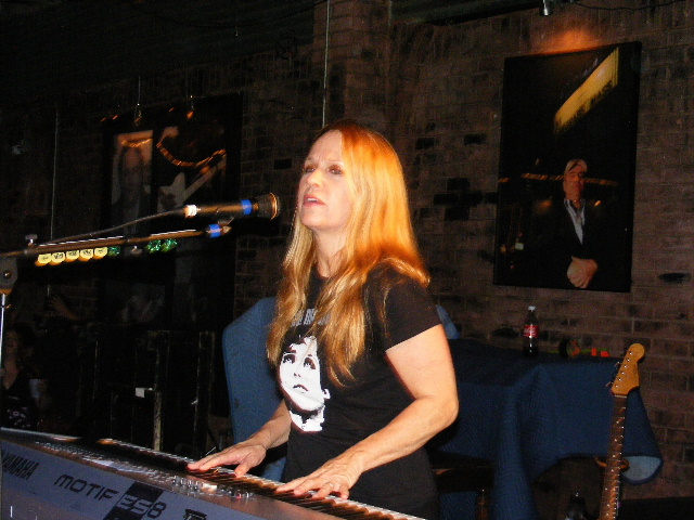 The Go-Go's at Antone's in Austin, TX. Charlotte Caffey (lead guitar and keyboards)